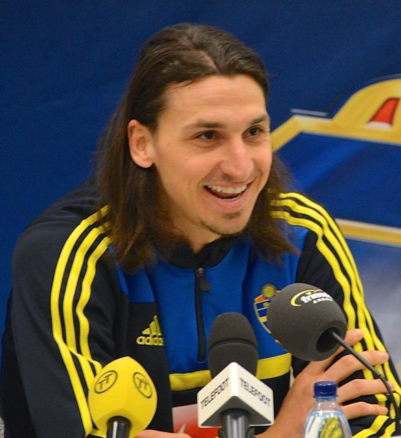 Zlatan Ibrahimović at a press conference March 21, 2013 before the qualifying match against Ireland.